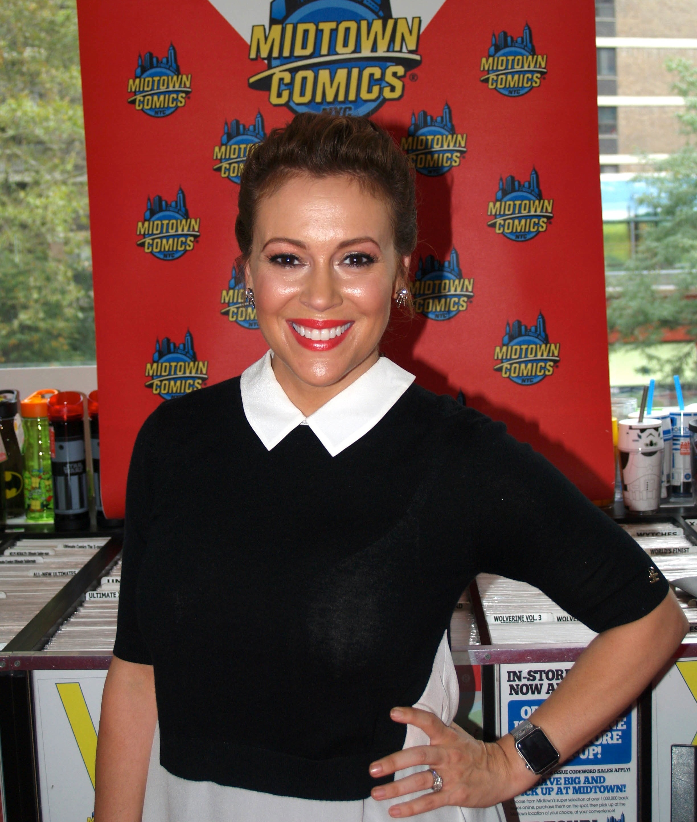 Actress Alyssa Milano at a September 12, 2015 book signing at Midtown Comics Downtown in Manhattan for her graphic novel, Hacktivist. This photo was created by Luigi Novi. It is not in the public domain, and use of this file outside of the licensing terms is a copyright violation.